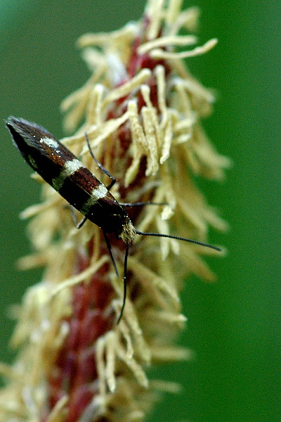 Picture taken in Commanster, Belgian High Ardennes . Species: Micropterix aureatella